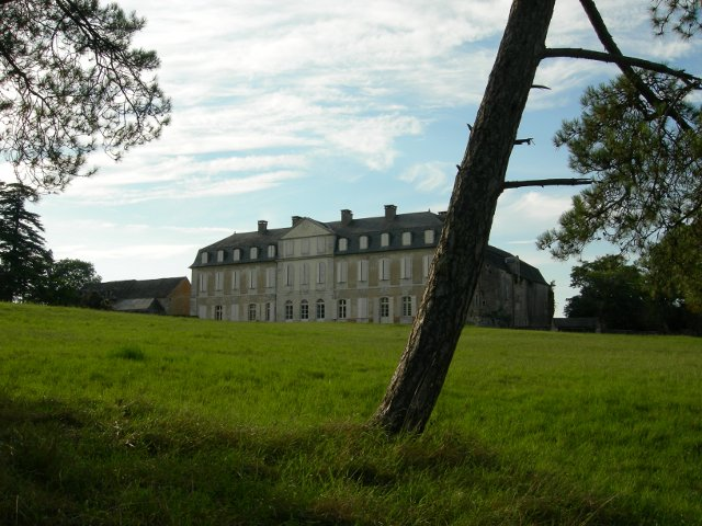 Classic facade of the La Pannonie Castle, between Rocamadour and Gramat (Quercy)